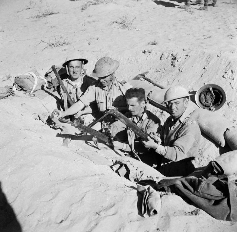 Four men of the 51st (Highland) Division dug in near El Alamein, 27 October 1942. Four men of the 51st (Highland) Division dug in near El Alamein, 27 October 1942.